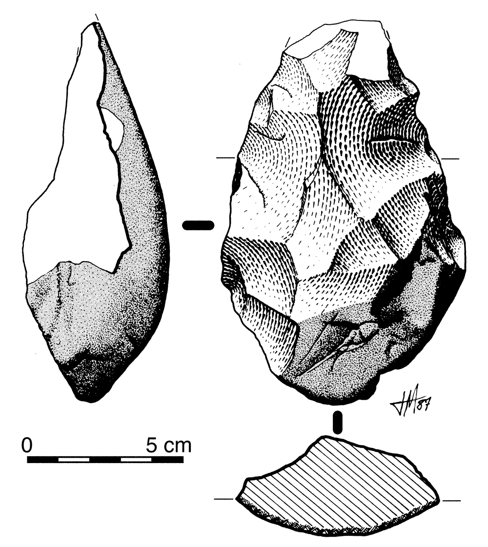 Acheulean hand axe monoface that proceeds from a superficial site in the Salamanca province (Spain), in the valley Huebra river, tributary of Douro river.